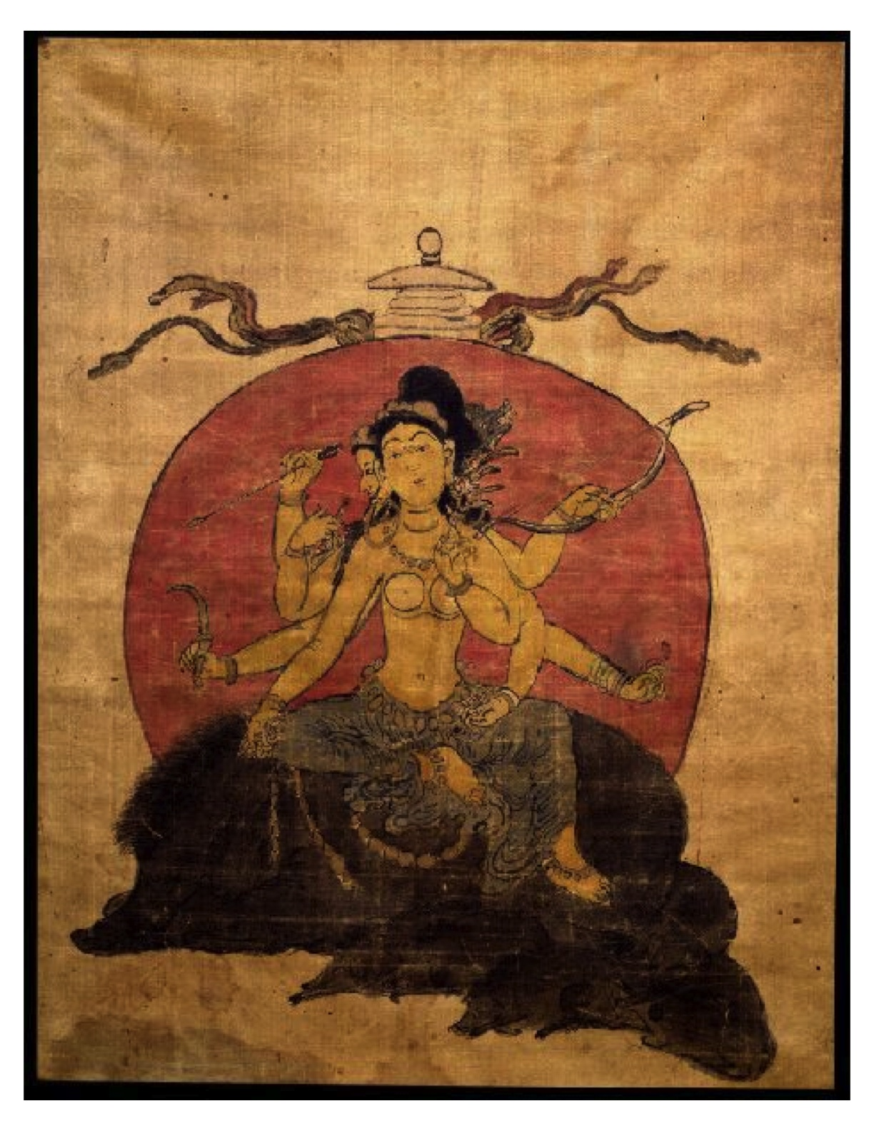 Marichi (Buddhist Deity). 1600–1699, Central Tibet. Ground mineral pigment on silk. Collection of Navin Kumar.